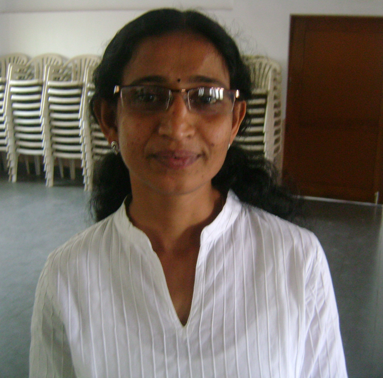 T. Geenakumari, Kerala Social Activist